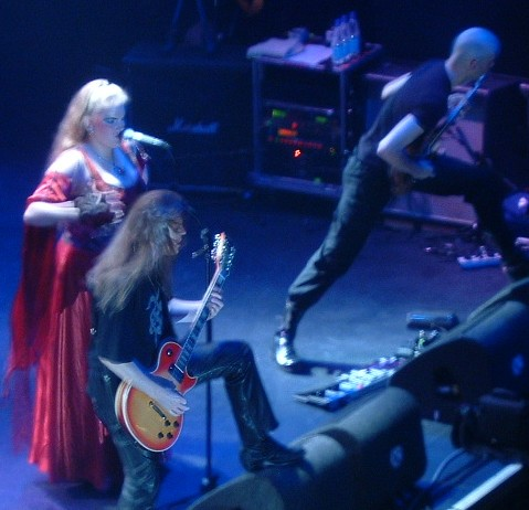 Therion Tilburg, Netherlands, November 2, 2004